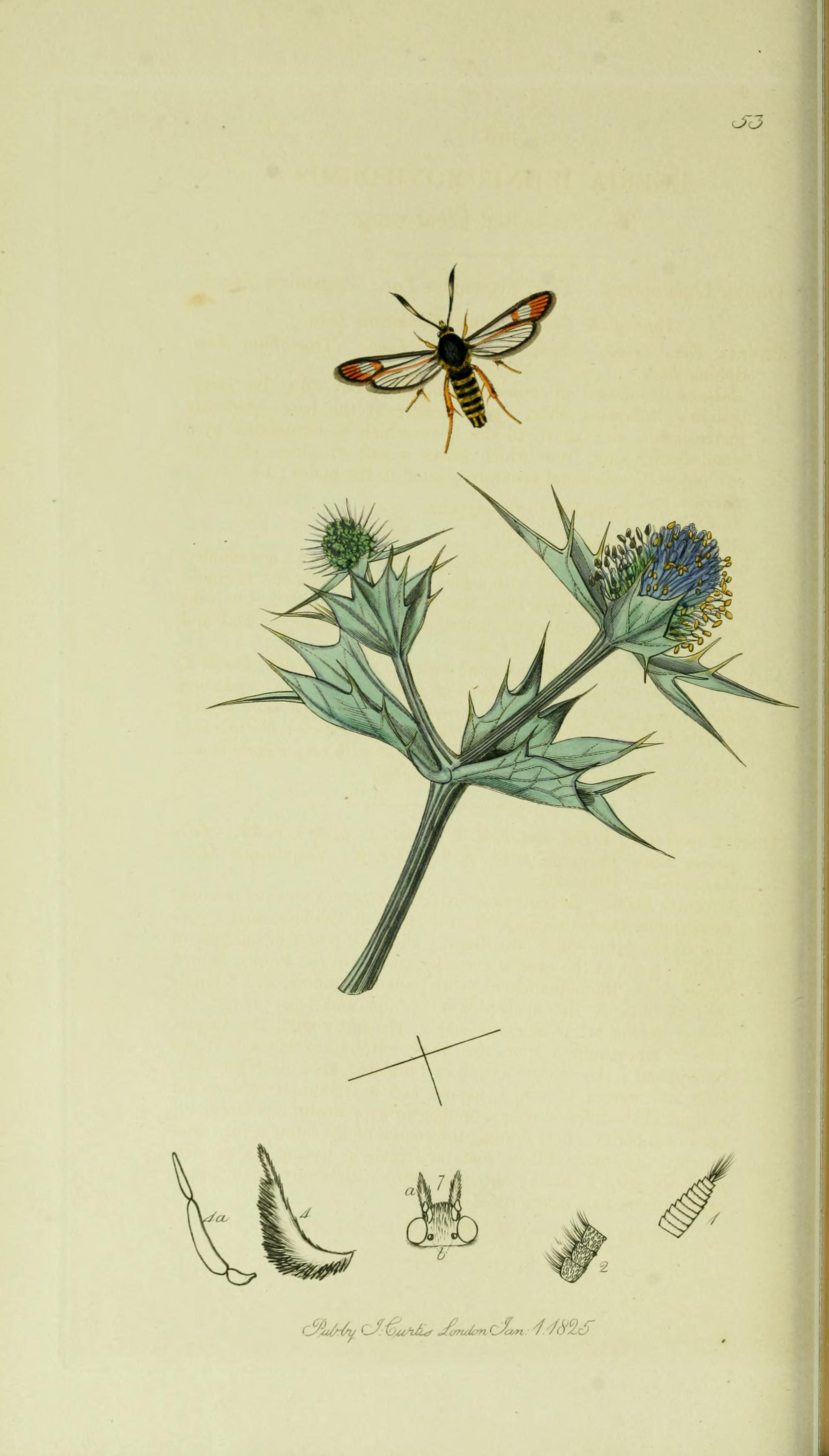 An illustration from British Entomology by John Curtis. Bembecia scopigera (Six-belted Clearwing).